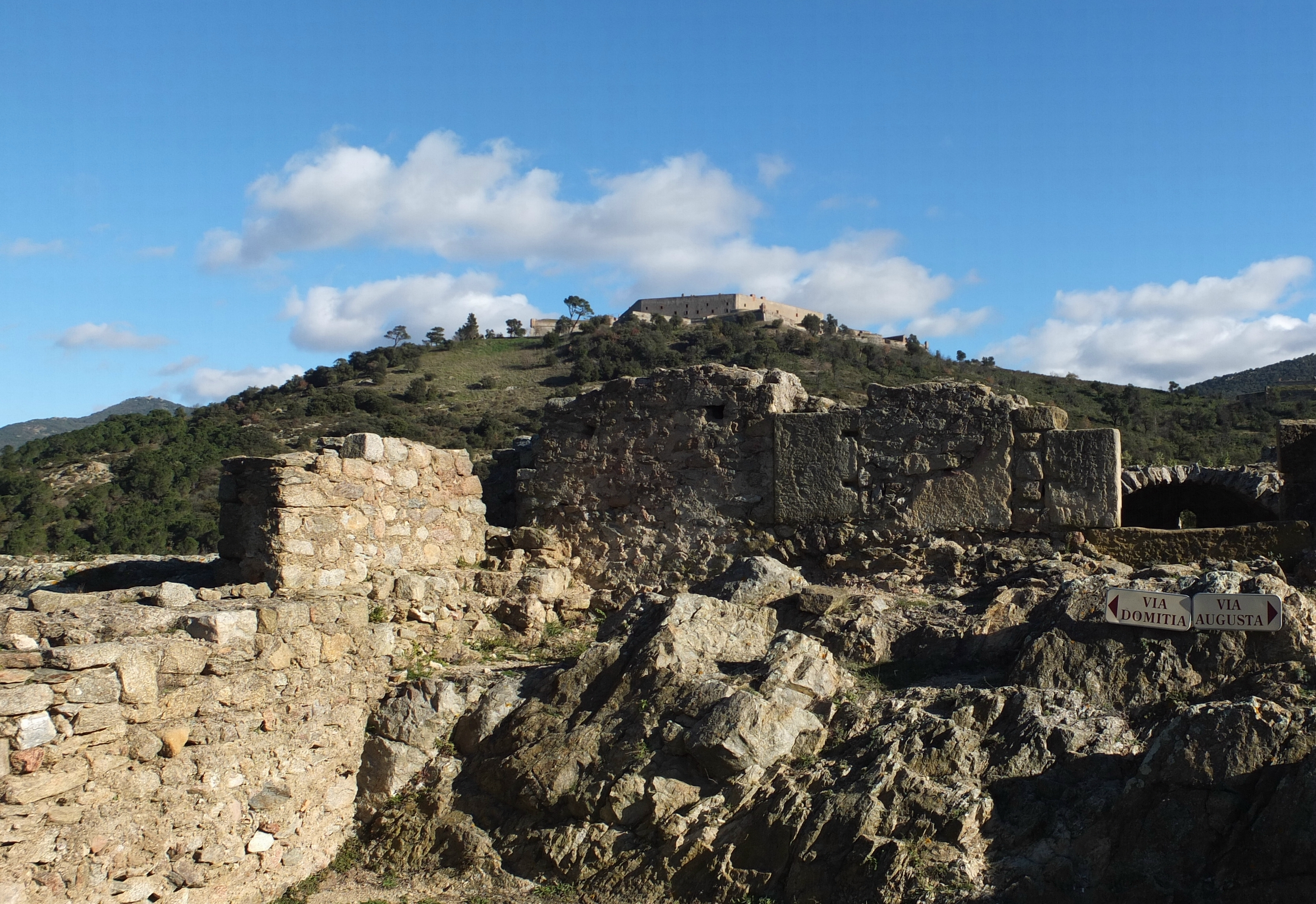 Archaeological site of Panissars at the Roman crossroads of Via Domitia and Via Augusta, ruins of the 11th ctry. monastery "Santa Maria de Panissars", near Le Perthus, France, Fort de Bellegarde in the background.